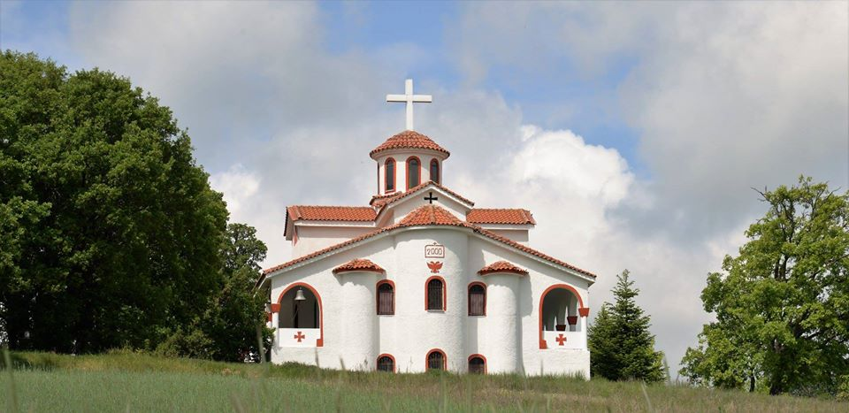 St Nikodim in Papayianni Florina